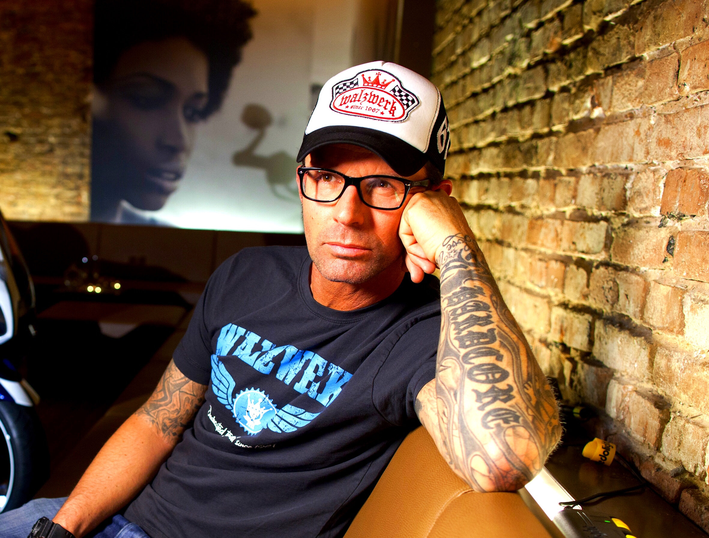 Marcus Walz Portrait 2